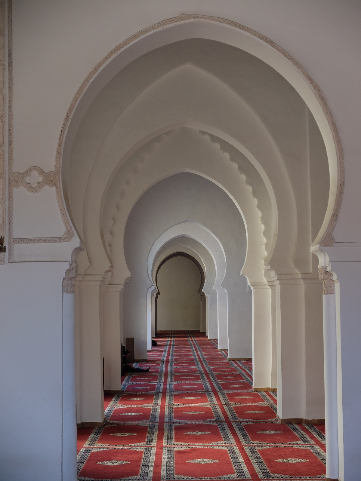 View of the northernmost aisle of the prayer hall of the Kasbah Mosque in Marrakech, seen from one of the doorways.